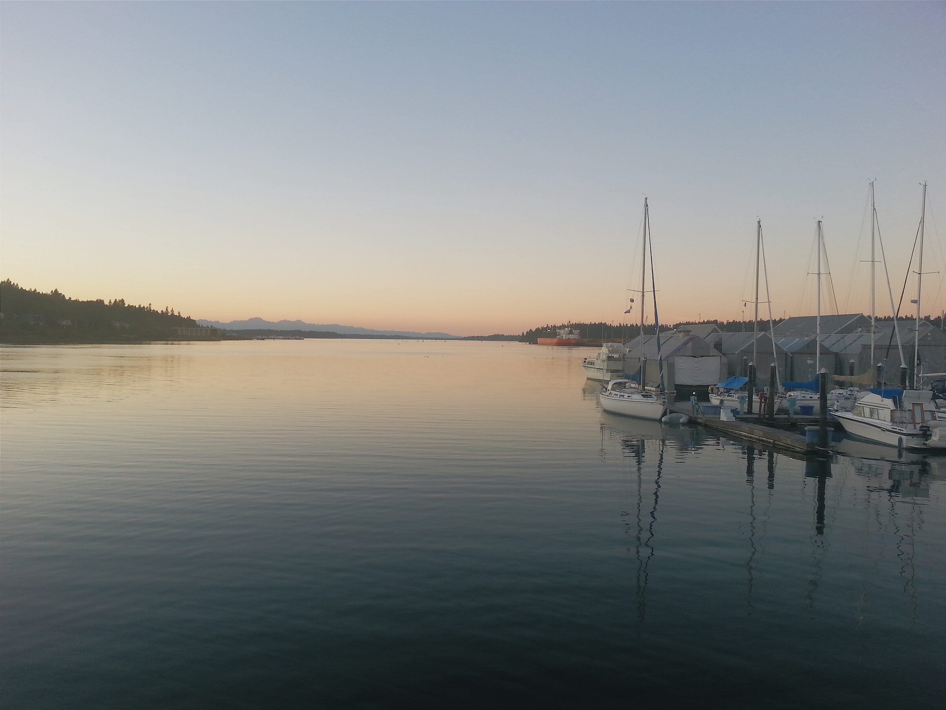 Percival Landing looking Northward to Budd Inlet